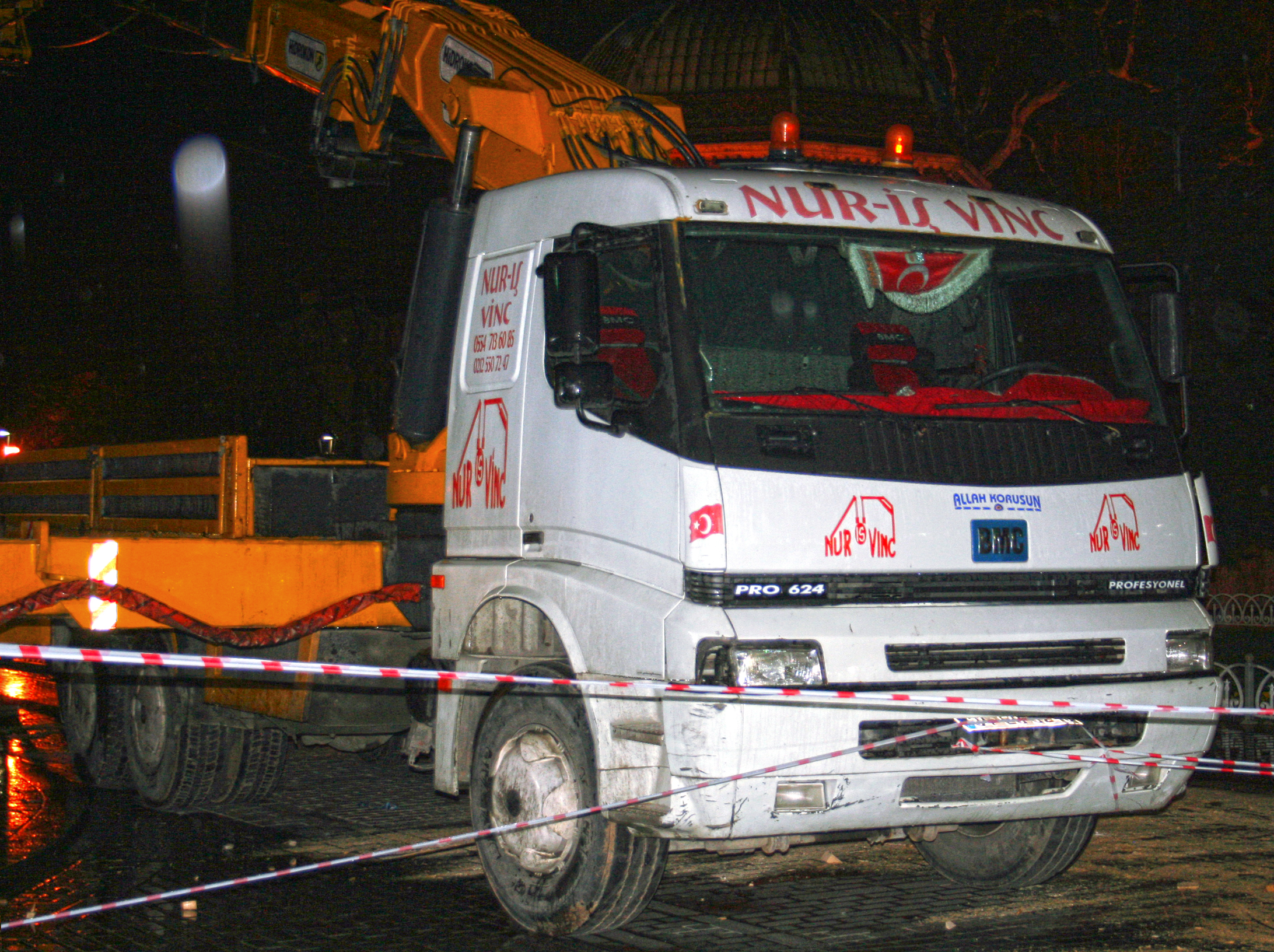 BMC Profesyonel Pro 624 with a biggish crane.